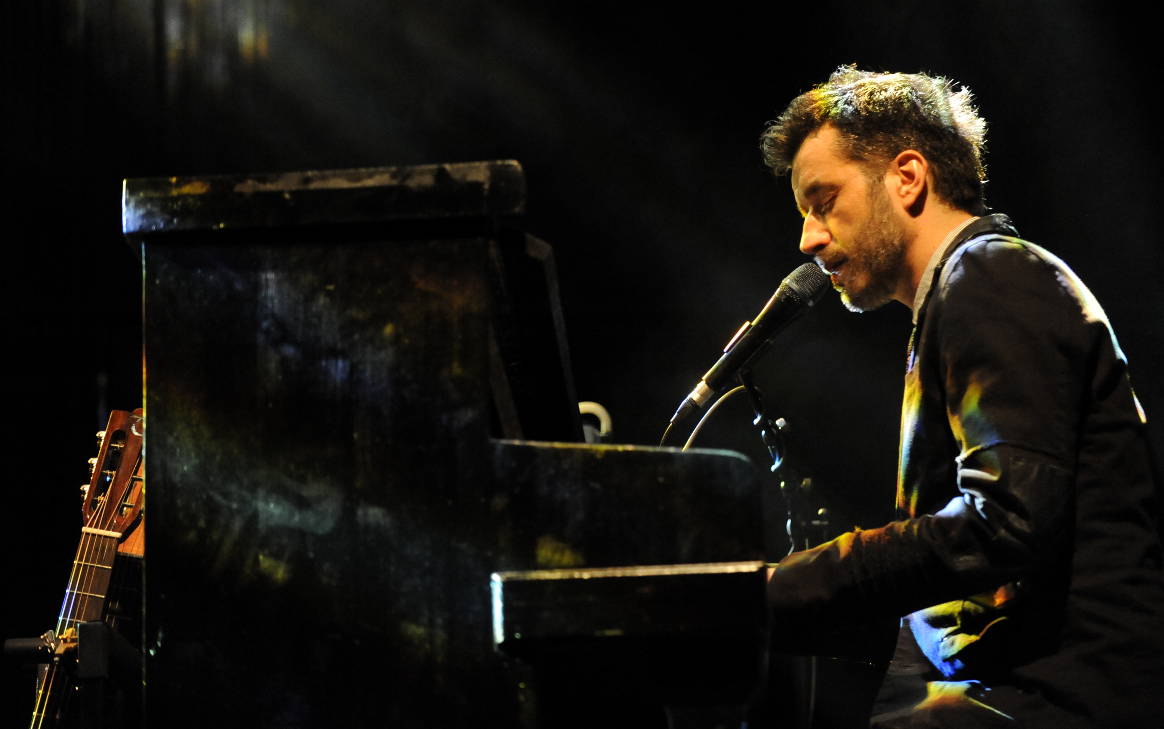 "E l’inizio arrivò in coda". Spettacolo teatrale di Daniele Silvestri e Pino Marino.